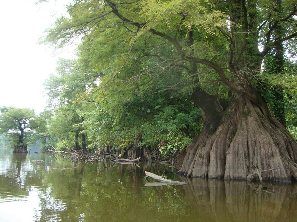 A natural oxbow lake outside of Paducah.